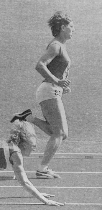 LG11 1972 Wire Photo PATTY JOHNSON ANN WILSON KARIN BALZER Olympic Track Dive